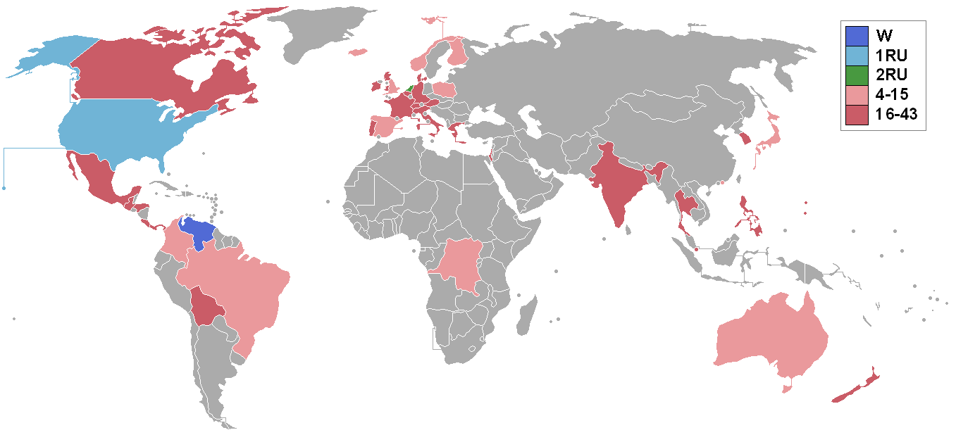 Miss International 1985 results map